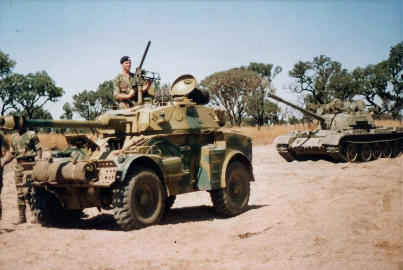 Eland armoured car and Polish-built T-55LD tank of the Rhodesian Armoured Corps parked at Inkomo Barracks.